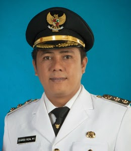 dari situs resmi yang bisa di akses publik